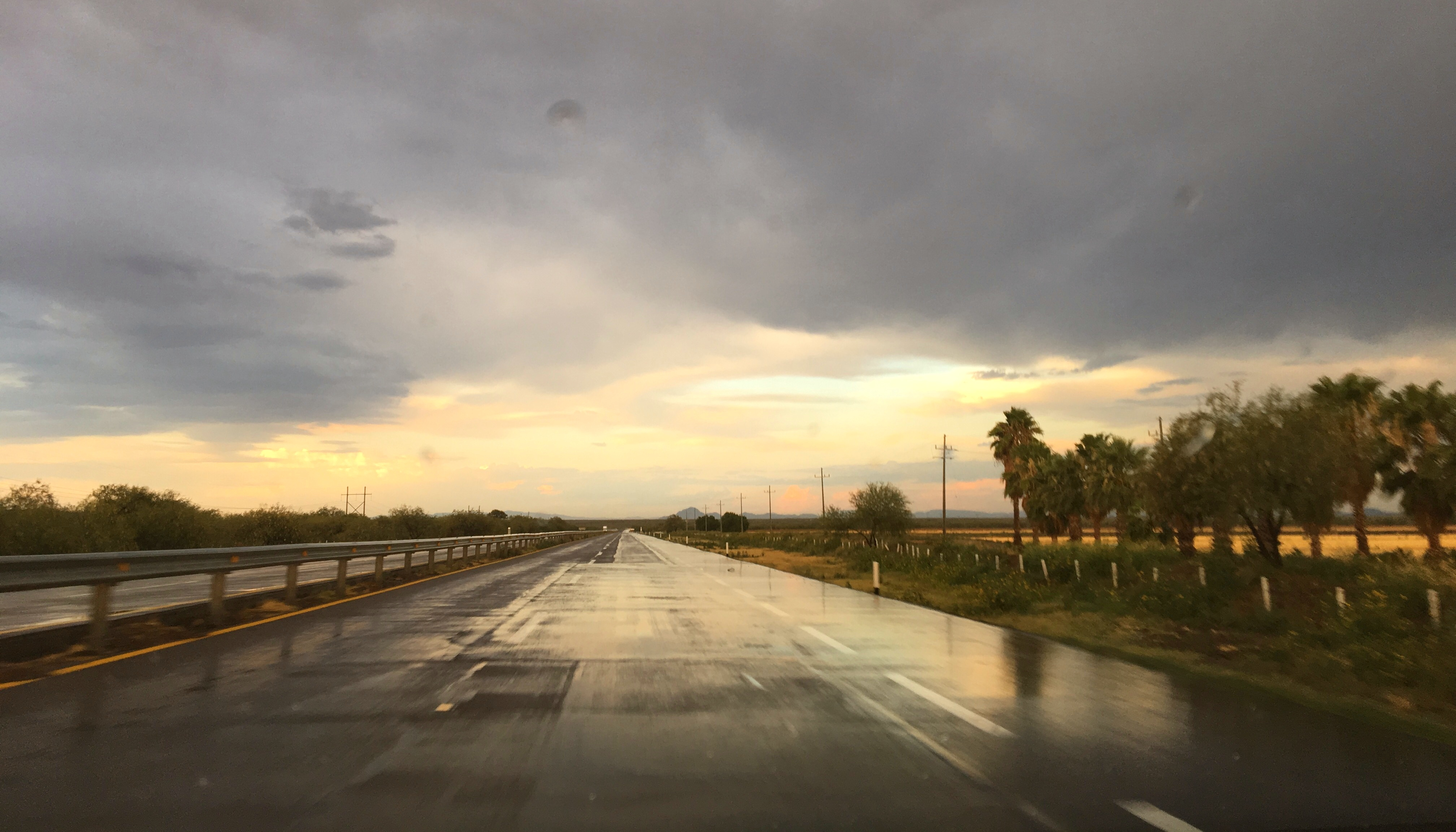 Eastbound Mexico Federal Highway 2 just outside Altar, Sonora, after a summer rain.